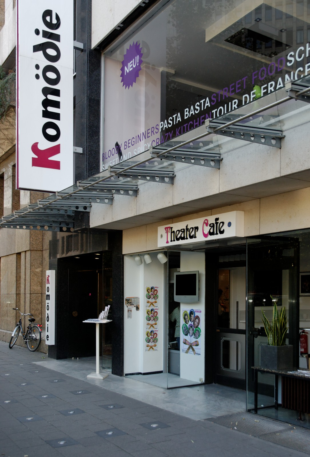 Komödie in Düsseldorf-Stadtmitte, Germany